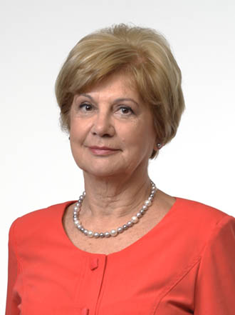 Professor Éva Kondorosi, one of the European Commission's Chief Scientific Advisors